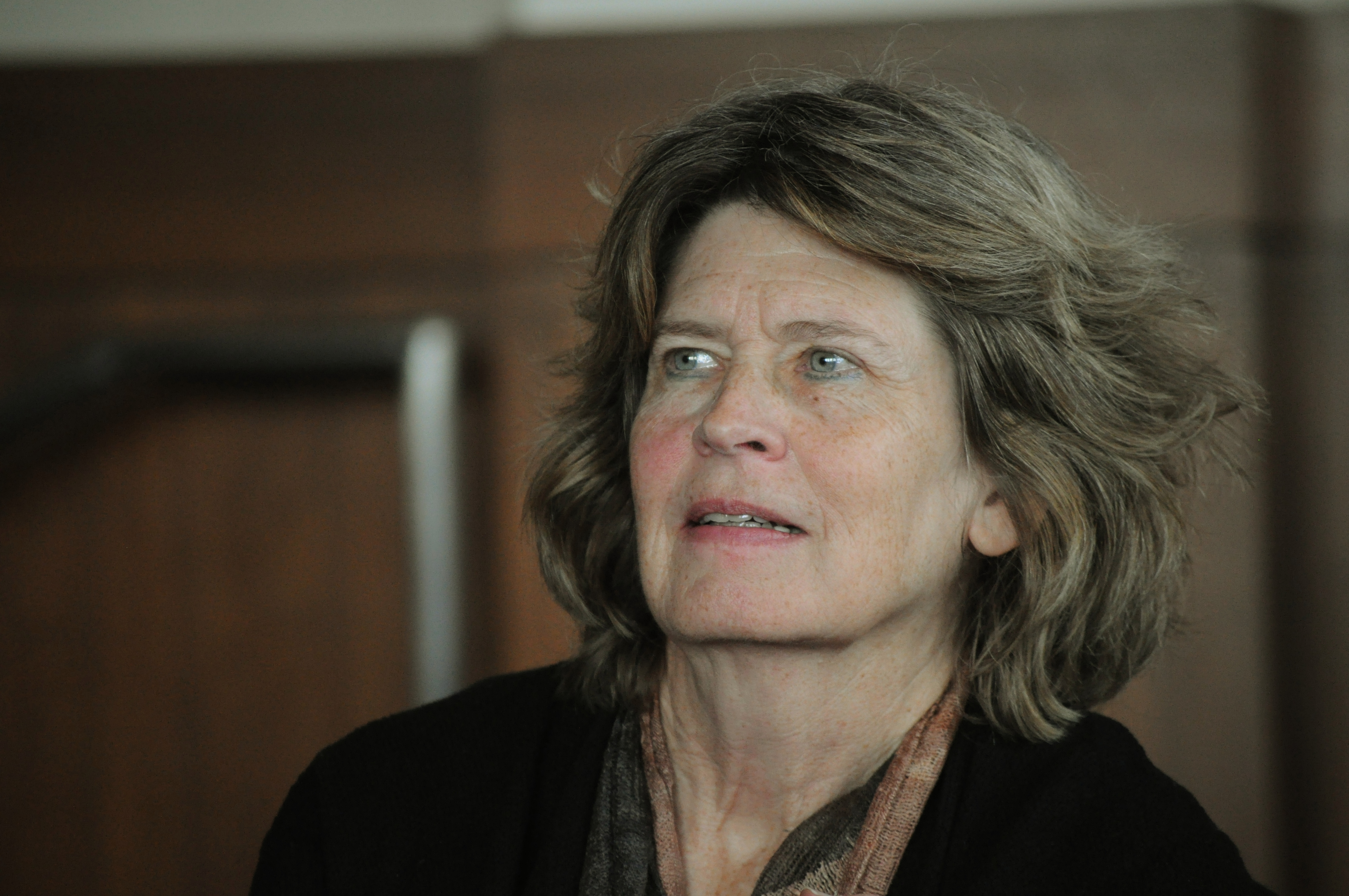 Alice Echols Associate Professor of English and Gender Studies at the University of Southern California, at Work It! a conference at USC on gender, race, and sexuality in pop music professions presented in association with the 2011 Pop Conference at UCLA.